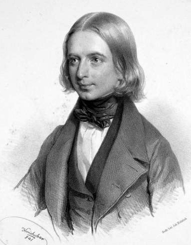 Italian classical guitarist and composer Giulio Regondi (1822-1872) by Joseph Kriehuber (1800-1876).